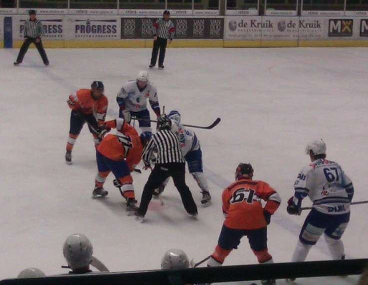 Eindhoven High Techs - Dordrecht Lions Playoff semifinale